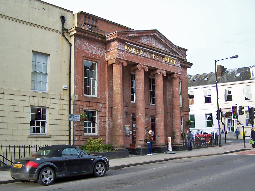 Robert the Bruce, Dumfries Behind the imposing façade is a public house, and part of the large J.D. Wetherspoon group. The building stands in Buccleuch Street on the corner of Castle Street. The building was formerly a Methodist church, and stood as a roofless ruin for many years before being restored as a pub.